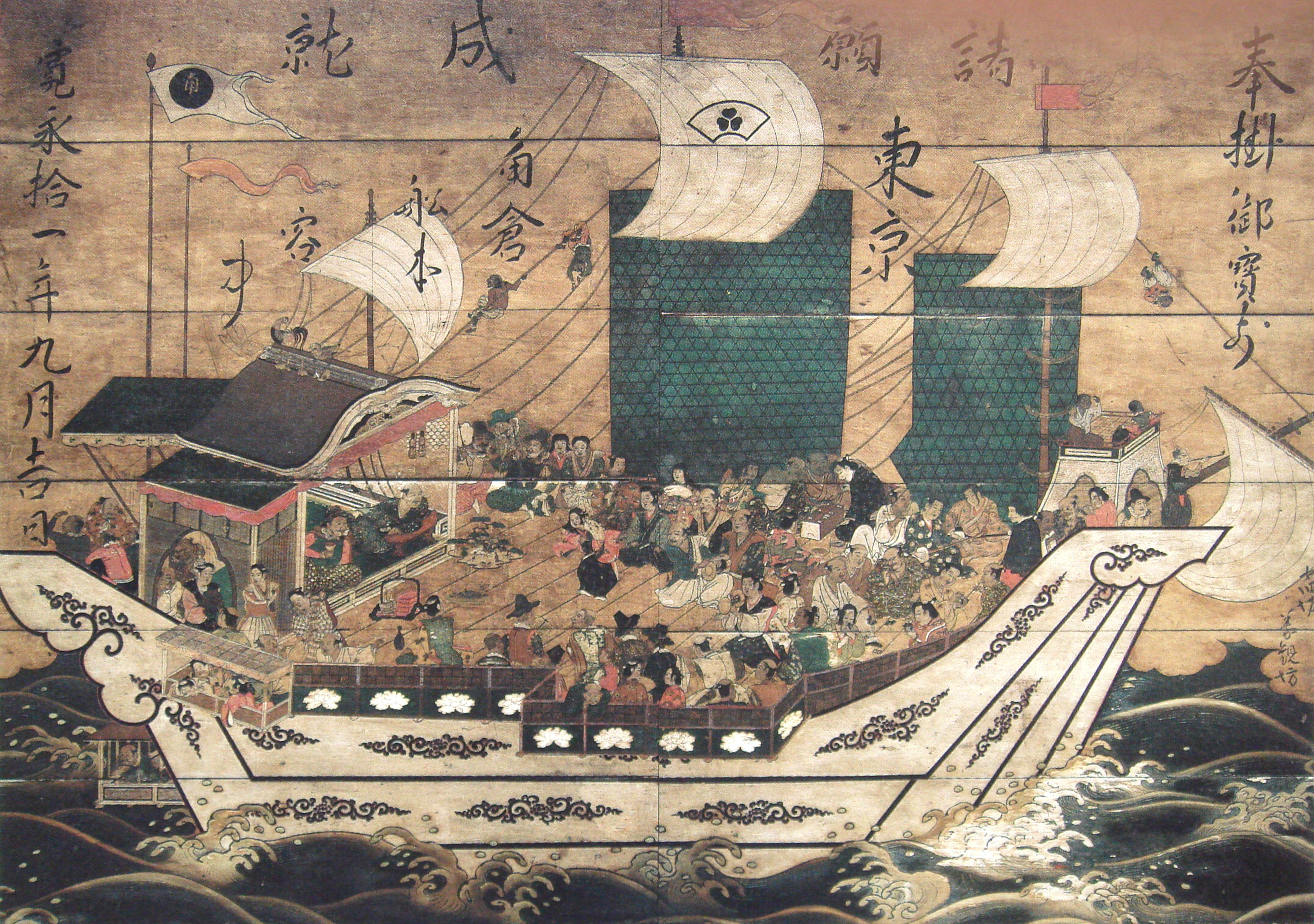 Suminokura_ship_tablet.